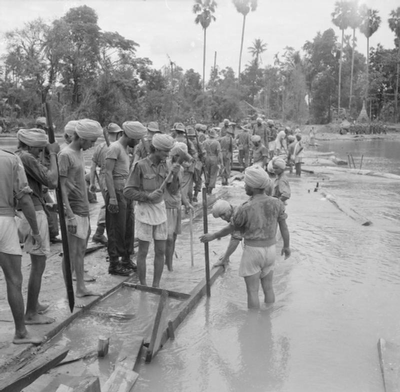 The Campaign in Burma, April 1945 Indian engineers construct a wooden bridge over a shallow stream or 'chaung' during the advance to Rangoon.